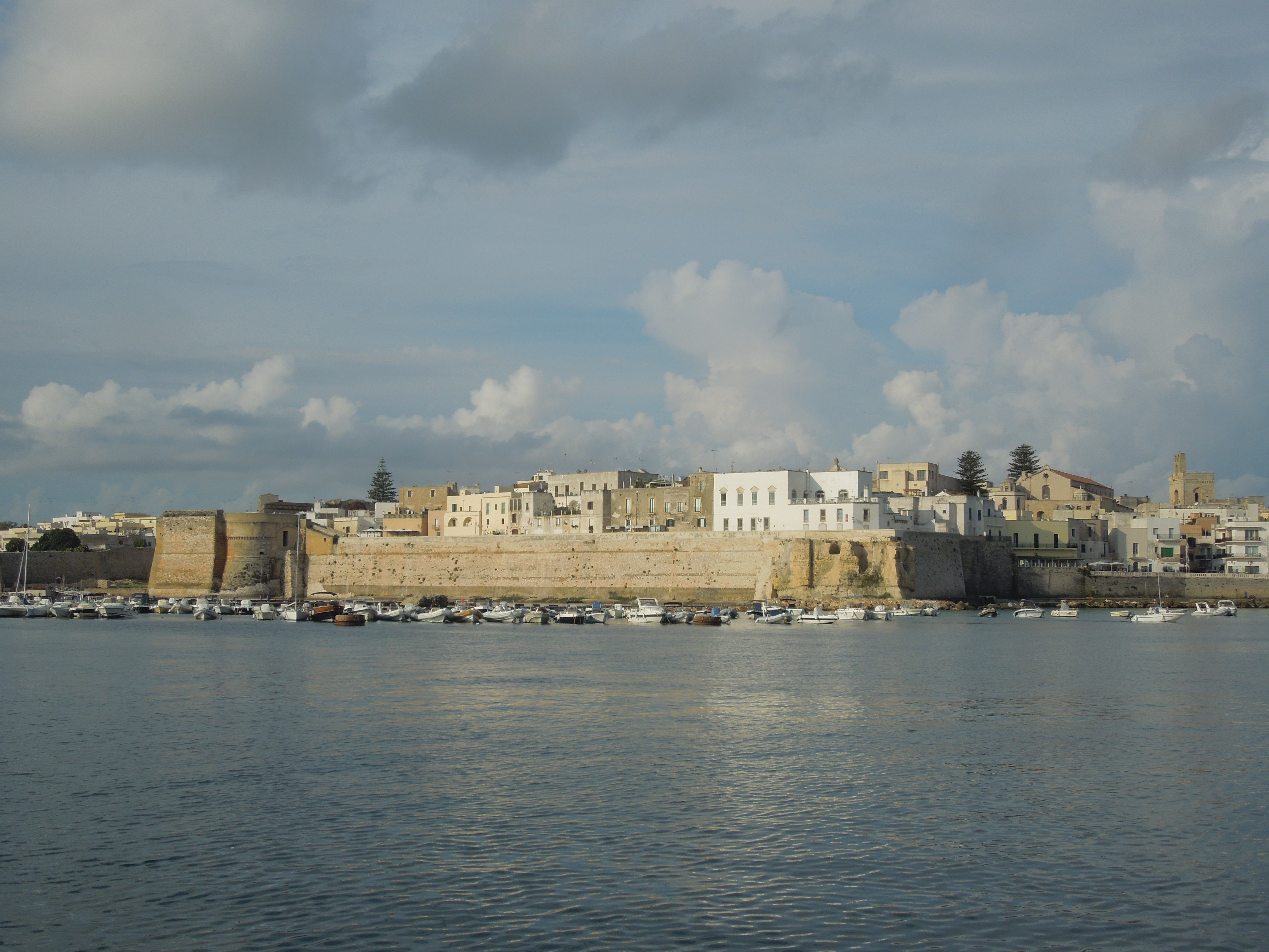 View of Otranto from the seaside